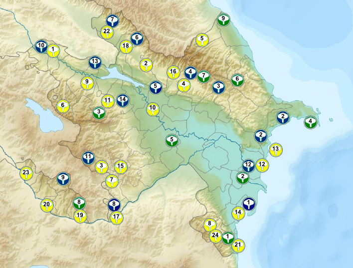 Azerbaijan state reserves, state nature sanctuaries and national parks location map.